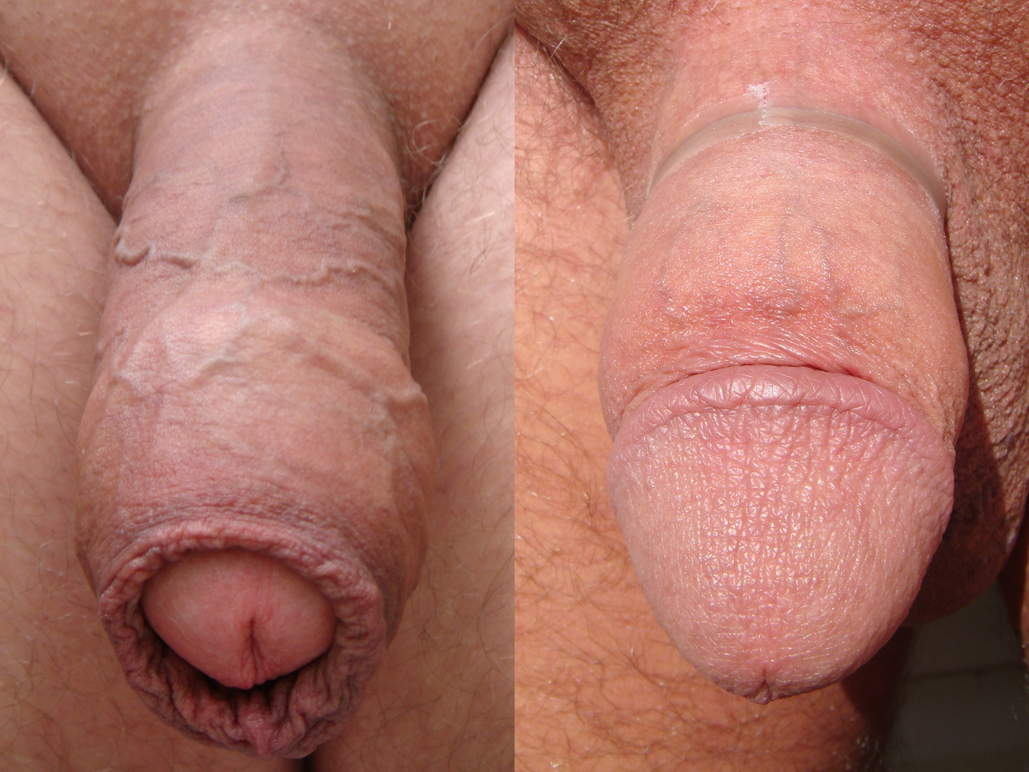 Taping the foreskin back with micropore tape to simulate circumcision